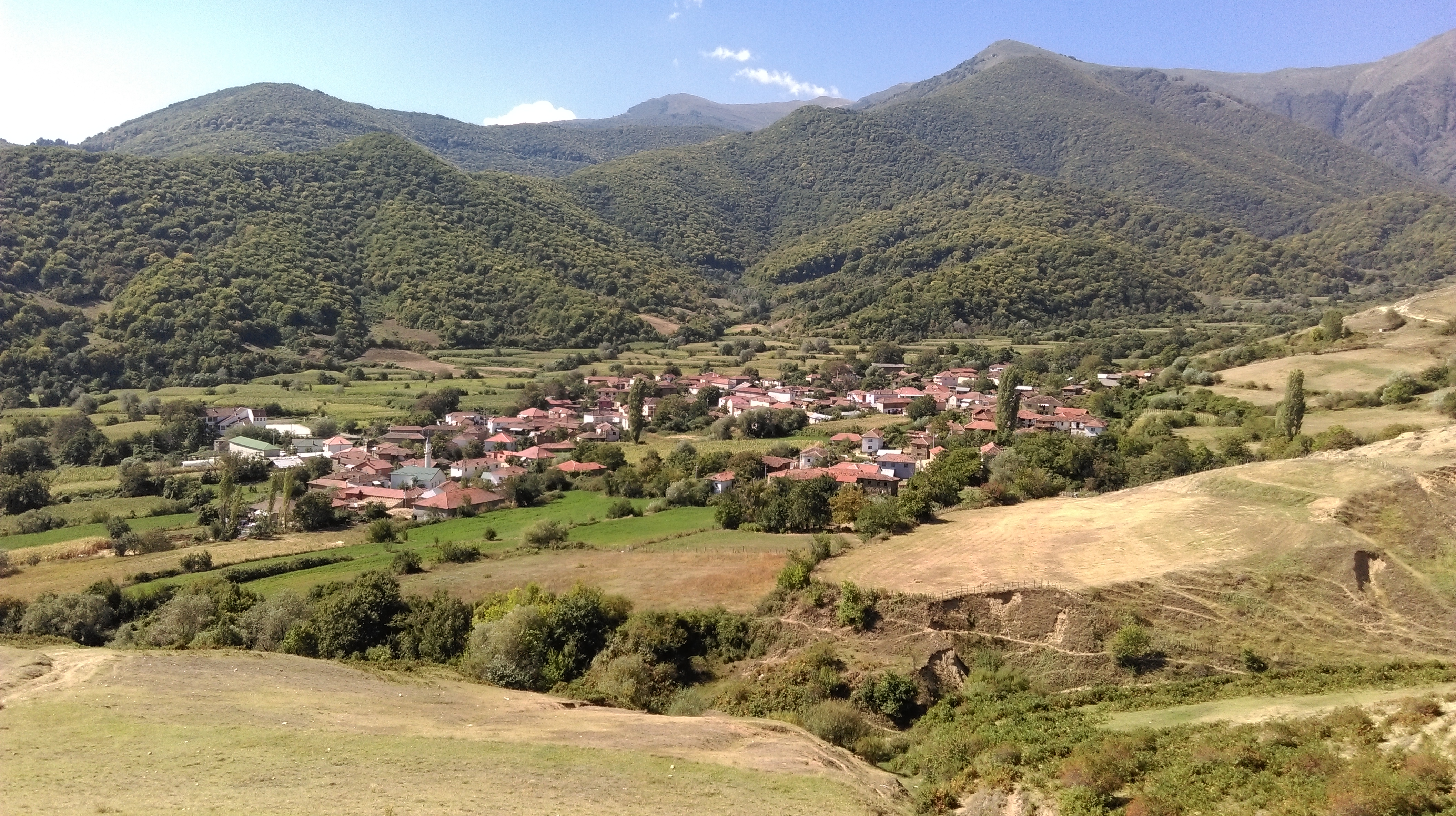 View of Kišava village